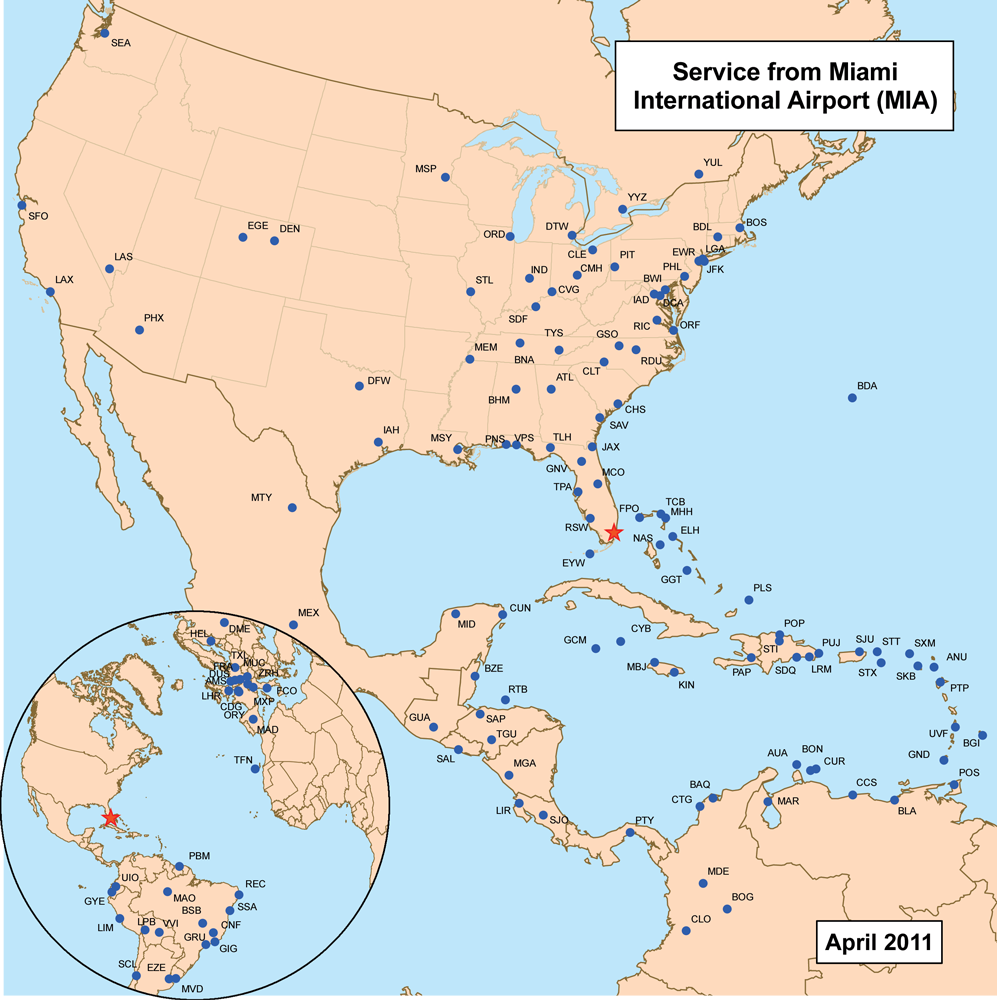 This is a route map for Miami International Airport as of June 2010. Map is an Azimuthal equidistant projection centered on the airport so straight lines from Miami are along great circle routes. Source.